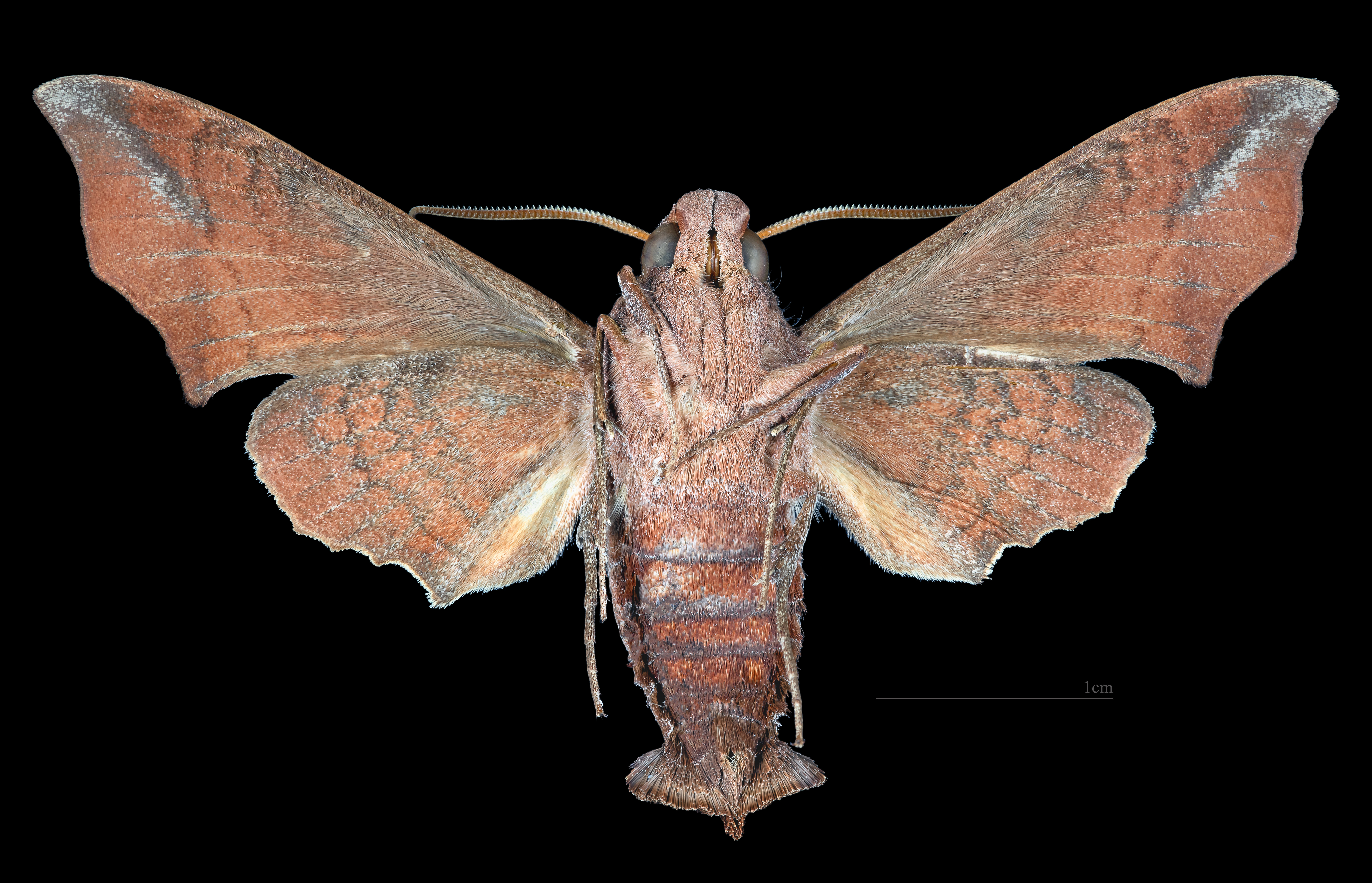 Perigonia stulta - △ Ventral side Collection of the Mathematician Laurent Schwartz